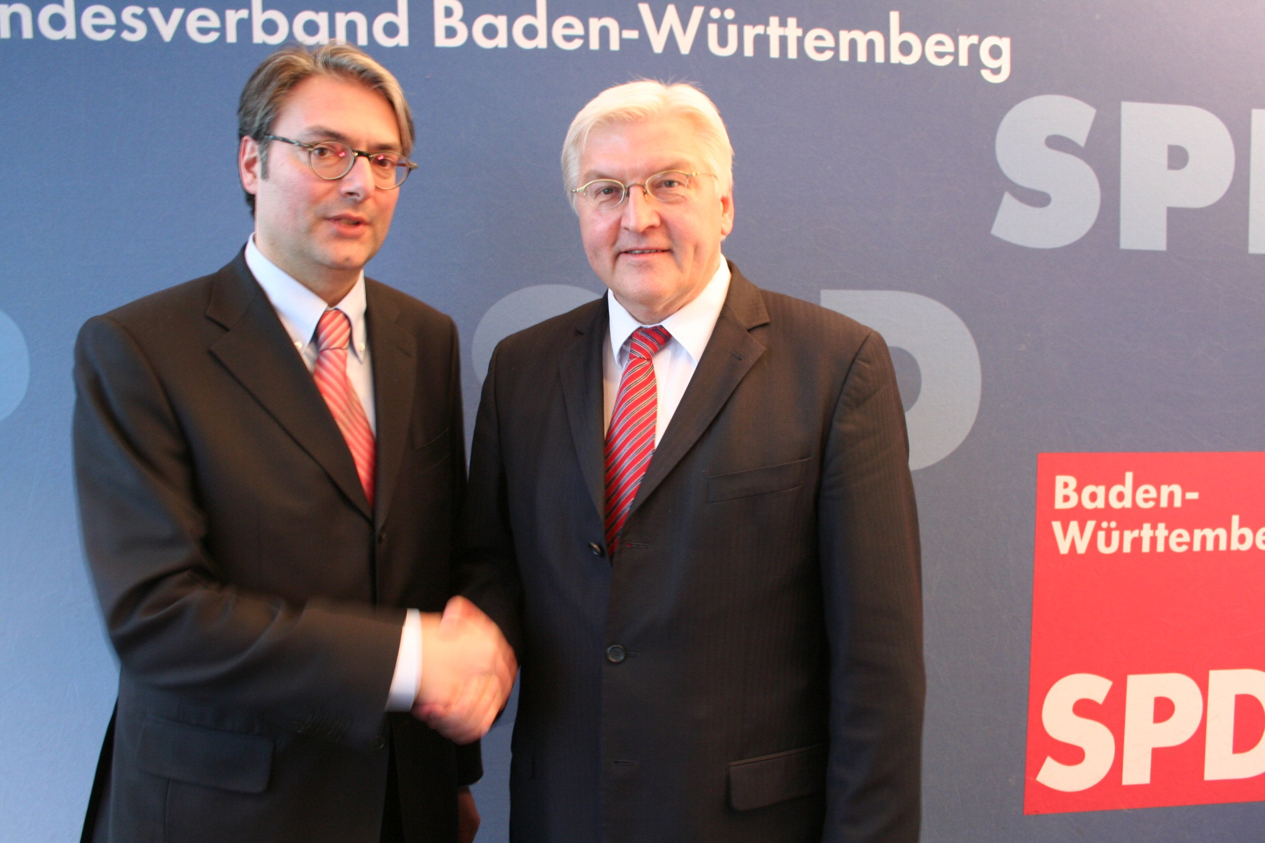 Johannes Jung, German SPD politician, with Frank-Walter Steinmeier